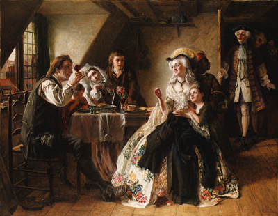 Peg Woffington's Visit to Triplet by Rebecca Solomon - oil painting. Triplet refers to the fictional poet James Triplet, from Charles Reade's play "Masks and Faces" from 1852. His name refers perhaps to a talent in writing triplets.